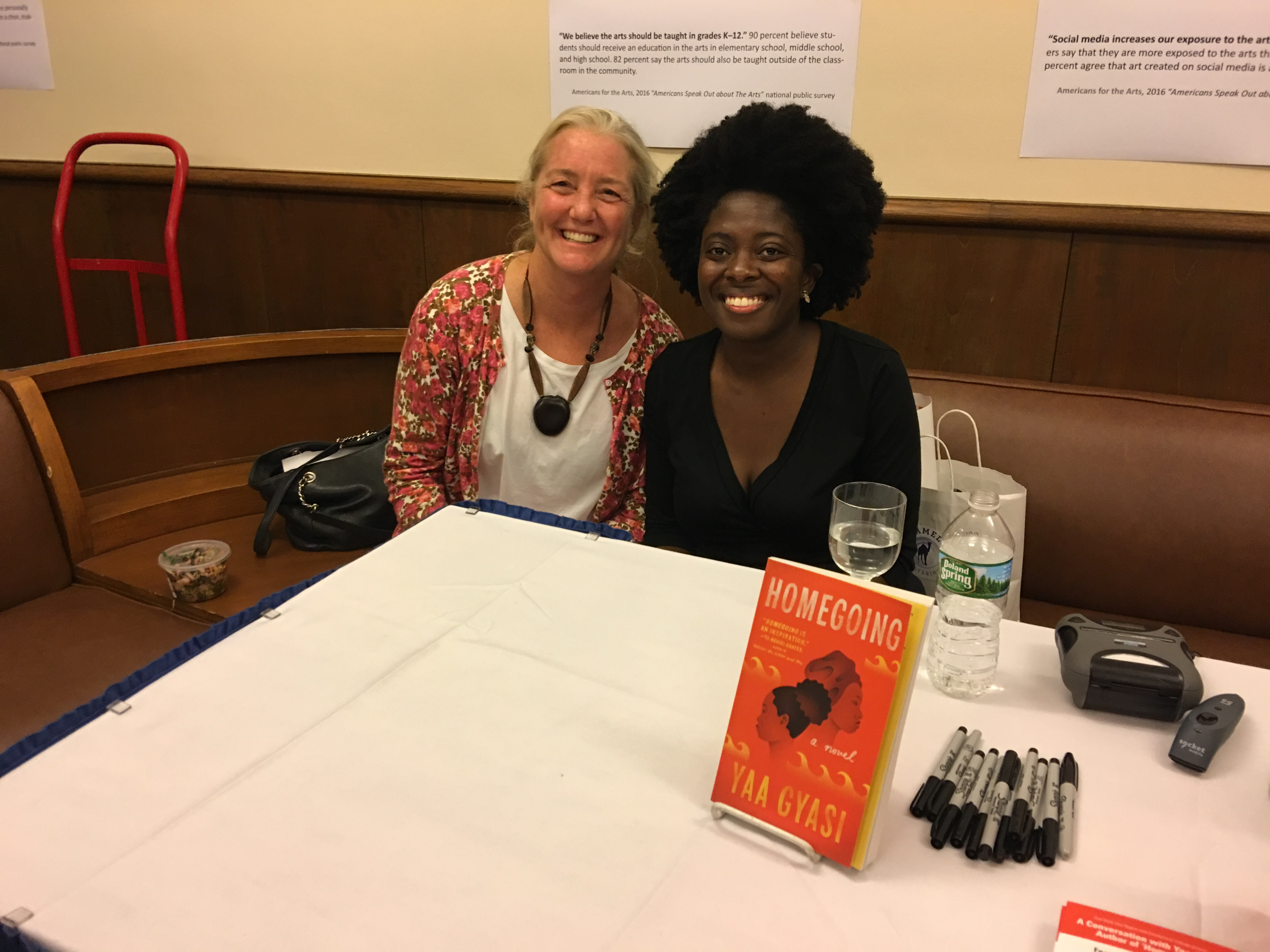 Yaa Gyasi, 9/27